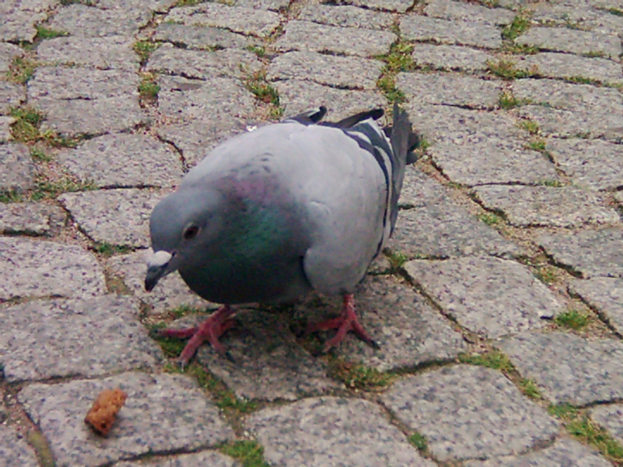 Rock pigeon in Jelenia Góra